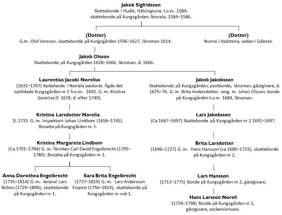 A chart of the owners of the royal mansion ("Norrala kungsgård") in the parish of Norrala (province of Hälsingland, Sweden), from the 16th century till early 19th century.